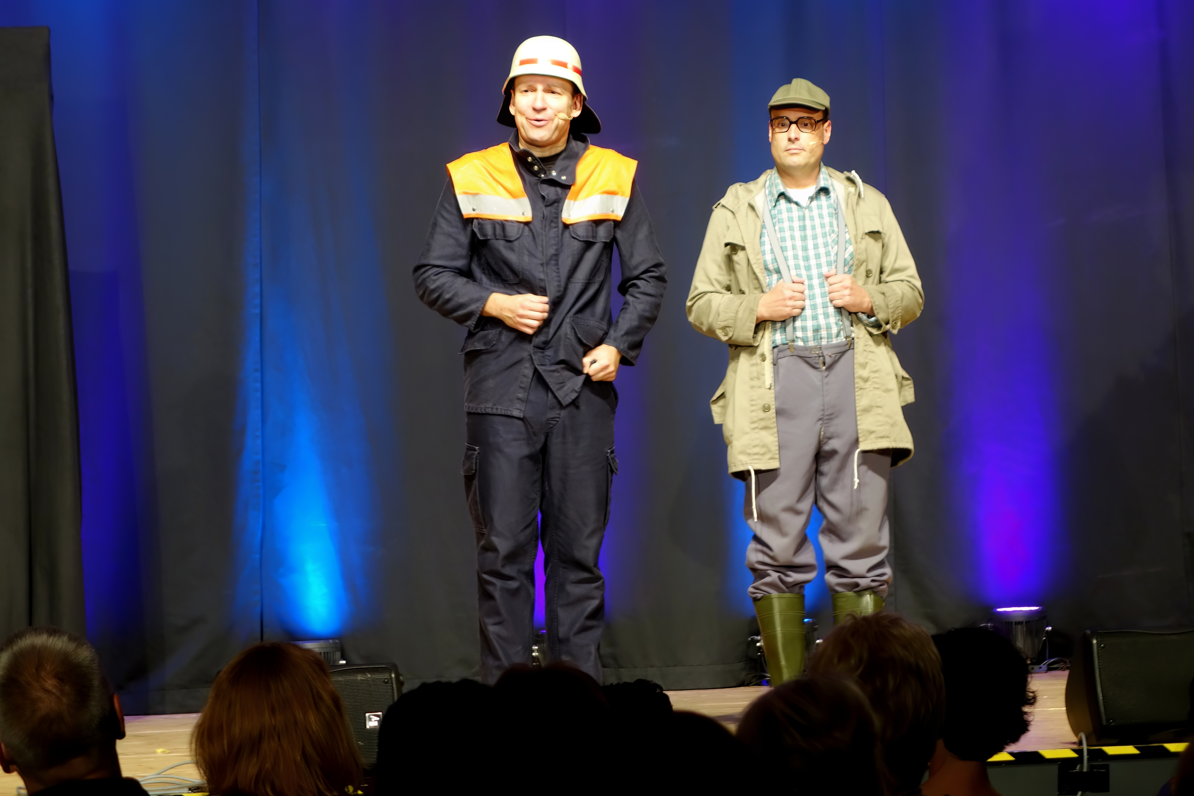 25 Years Rurtal Trio: Fireman 'Josef Jackels' and farmer 'Hastenraths Will' pictured during Rurtal Trio's one-off comeback on September 22 2016 in Hückelhoven's 'Aula des Gymnasiums'.